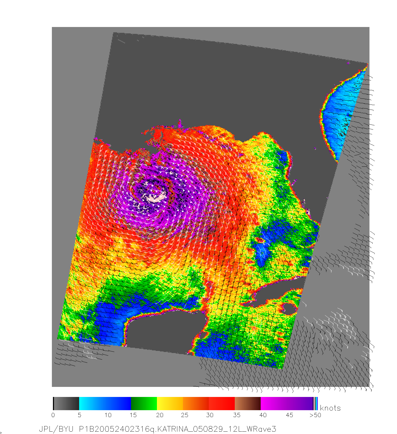 Hurricane Katrina exploded into a Category 5 storm on August 28 as it moved north through the Gulf of Mexico towards the United States. It is one of the most powerful storms on record for the Atlantic Basin. Nearly the whole of the Gulf of Mexico was churning with the powerful winds and rains of Hurricane Katrina on August 28, 2005, when NASA’s QuikSCAT satellite captured this image. The image depicts relative wind speeds swirling around the calm center of the storm. The highest wind speeds, shown in shades of purple, circle a well-defined eye, with gradually weakening winds radiating outward. The barbs reveal wind direction, and the white barbs show heavy rainfall. At the time this image was taken, the National Hurricane Center reported that Katrina had winds of 160 miles per hour (257 kilometers per hour or 140 knots) with stronger gusts, and it was moving north-northwest at about 10 mph (16 km/hr). The storm weakened slightly before coming ashore, but was still a powerfully destructive storm.